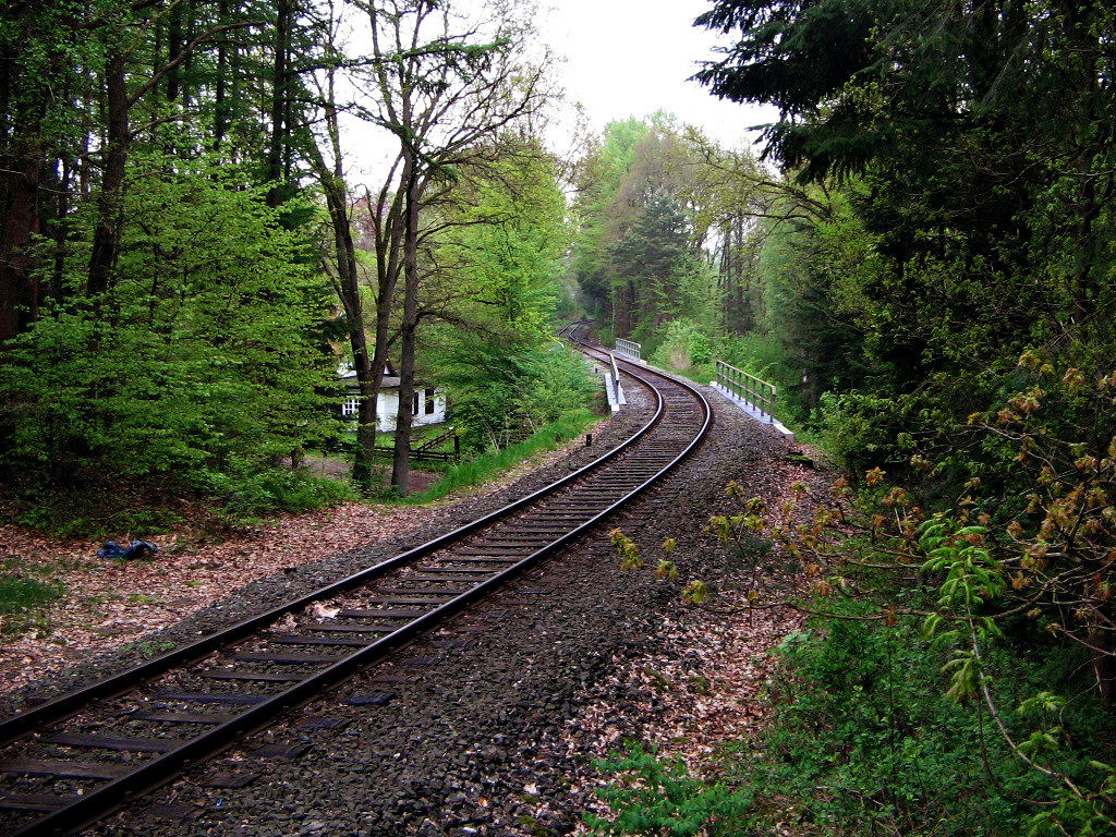 Railway Bomlitz-Walsrode (Lower Saxony, Germany) crossing the Warnau valley